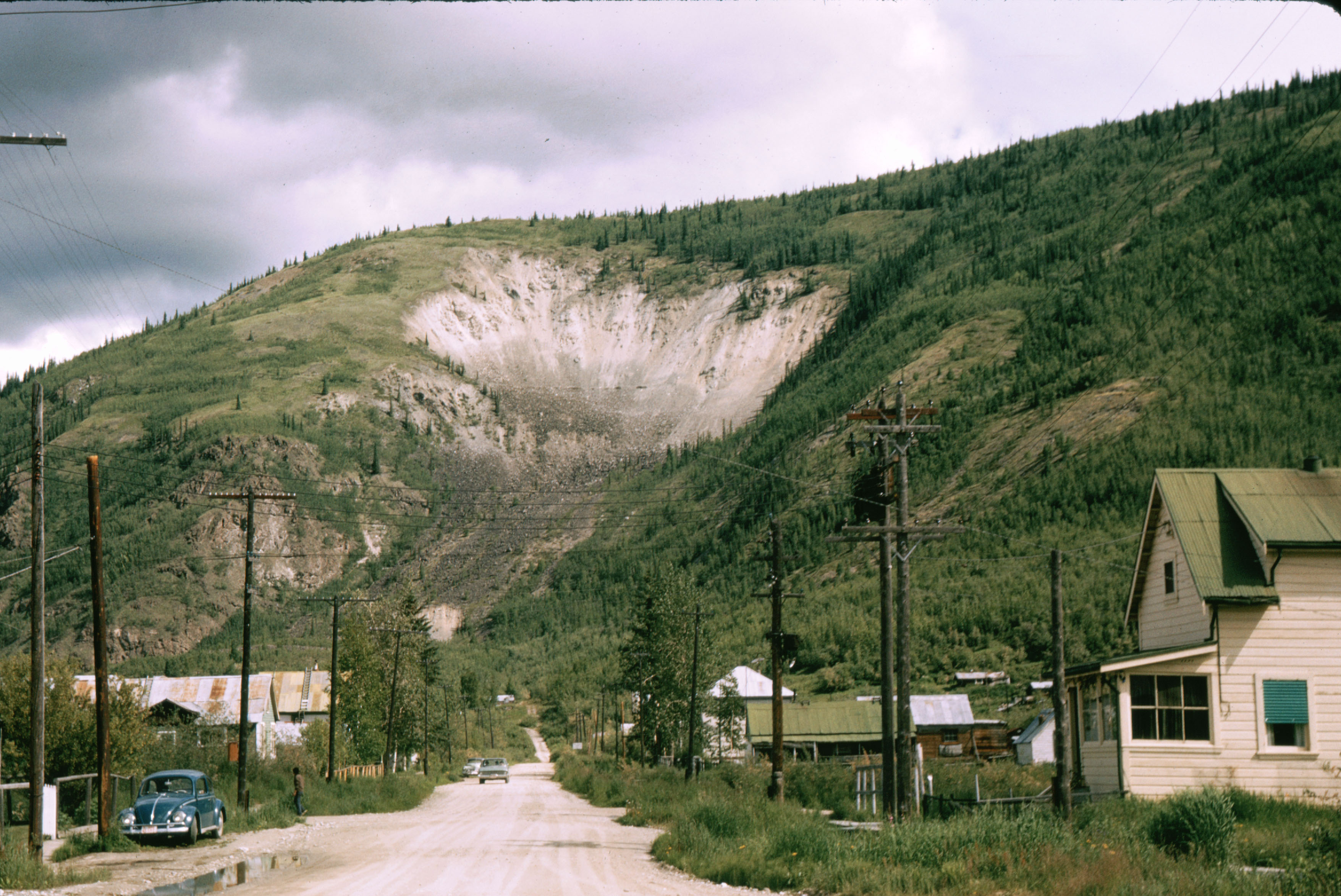 Streetscene and landslide at mountain side; Dawson, Yukon Territory, Canada.